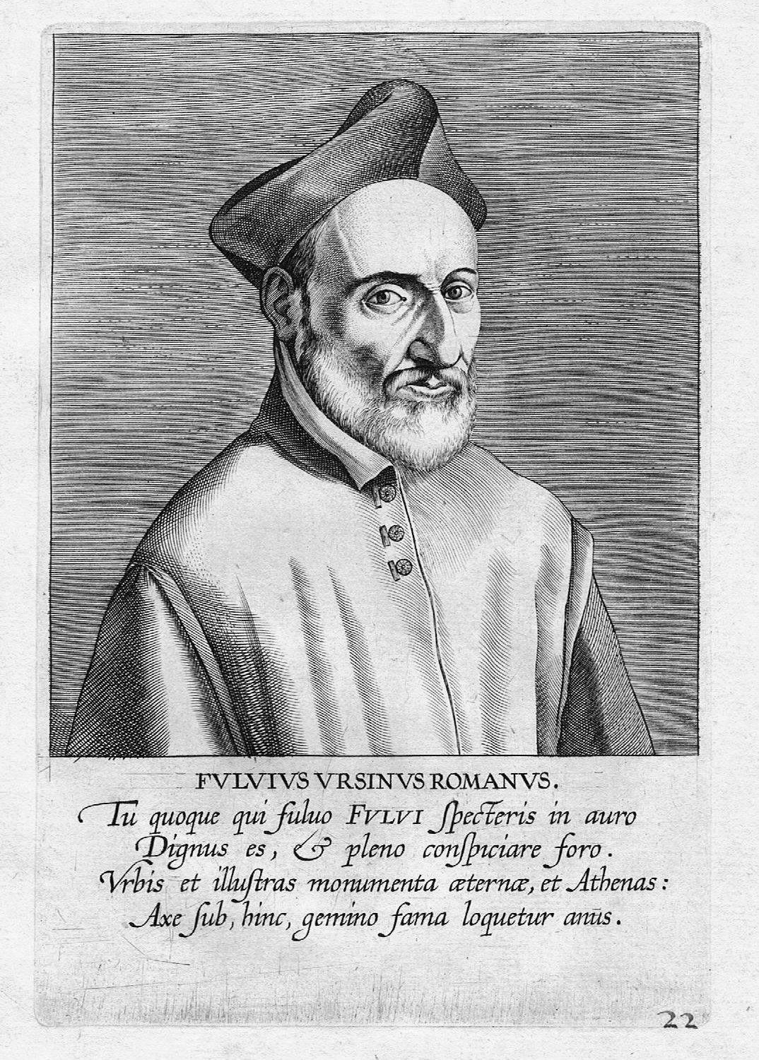 Fulvio Orsini, italian Antiquarian (1529–1600)